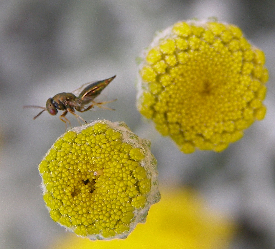 On Santolina sp.